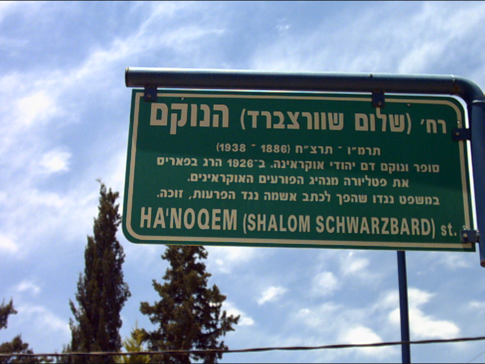 Hanokem street in Beer Sheva, Israel. In memory of Shalom Schwarzbard, who assassinated Symon Petlura